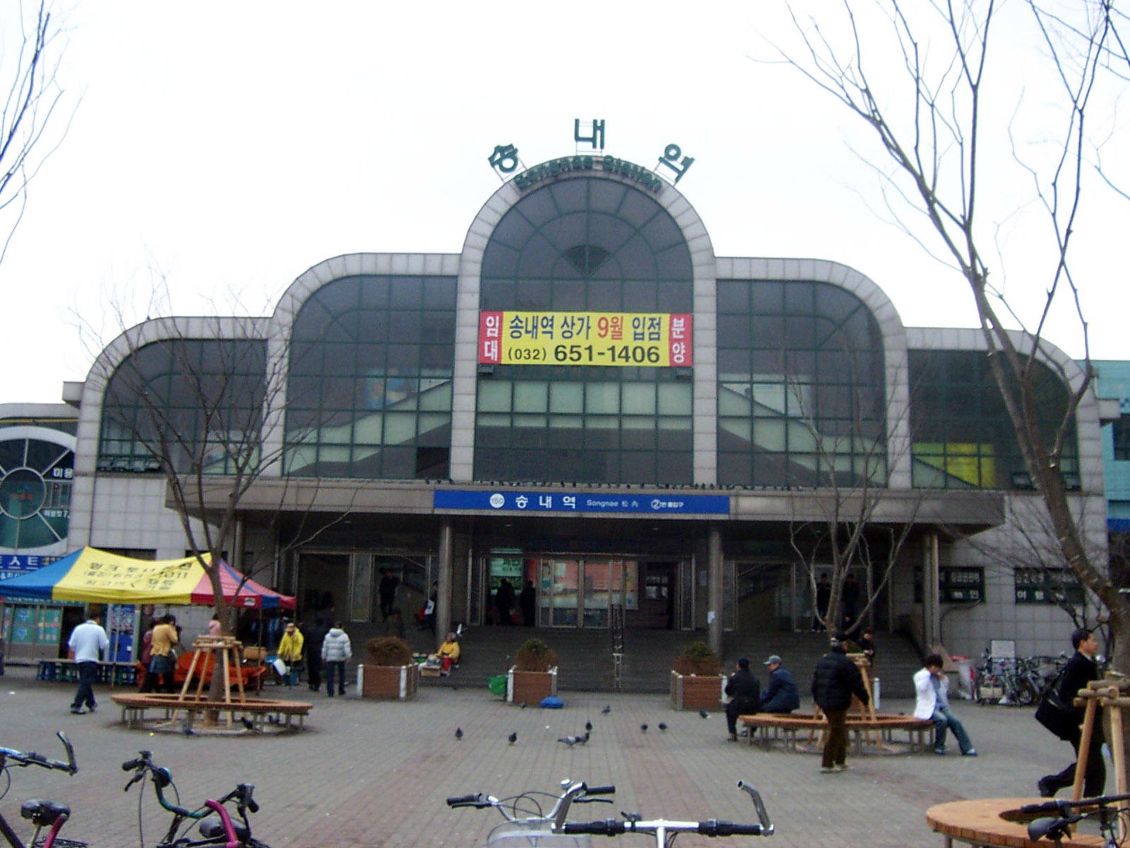 Songnae Station (Songnae Station)